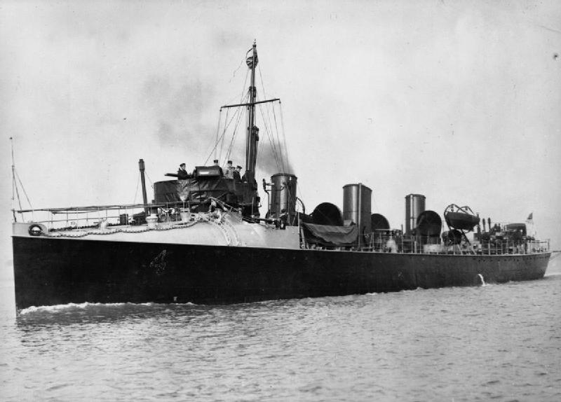 Photograph of British Star class (later C class) torpedo boat destroyer HMS Flirt.